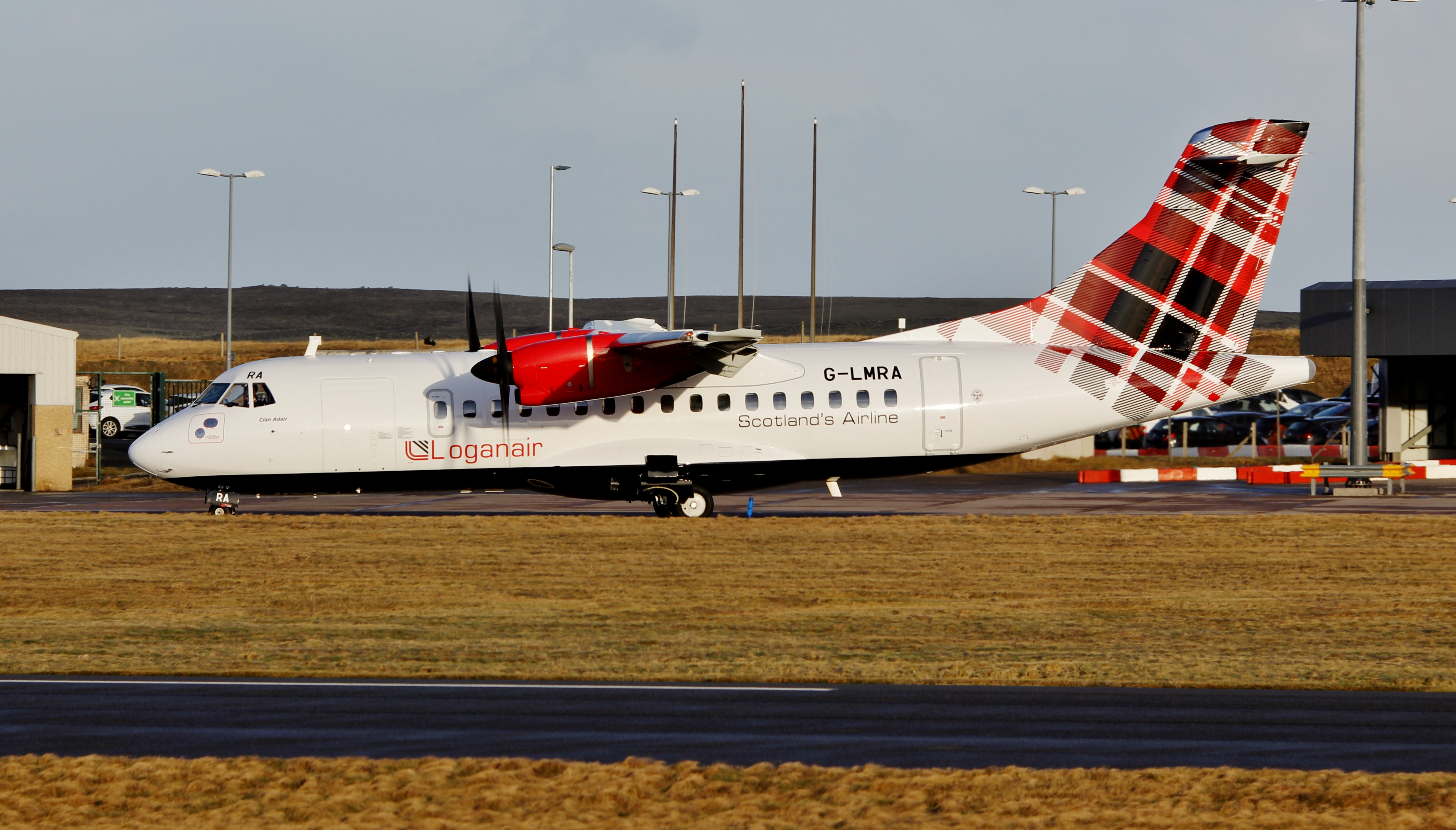 Heralding a new era at Sumburgh with Loganair and the ATR 42